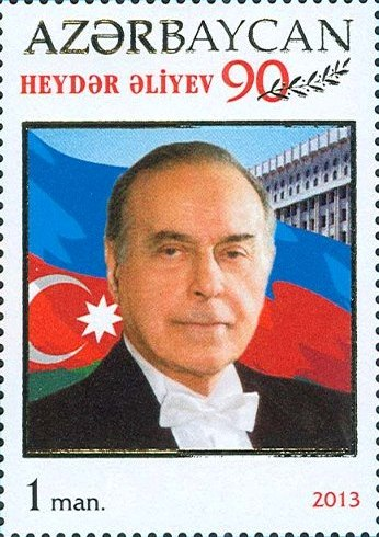 The 90th Ann. of National Leader Heydar Aliyev.